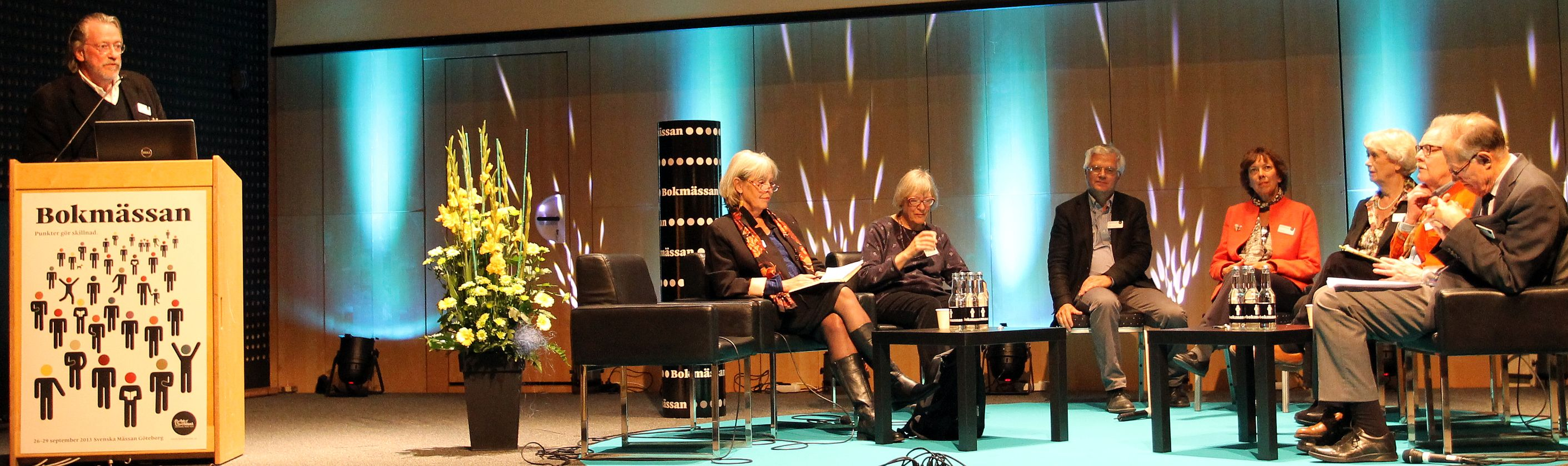 A picture of Samfundet De Nio (The Nine Society) taken at the Gothenburg Book fair 2013. L_R: Niklas Rådström, Agneta Pleijel, Madeleine Gustafsson, Johan Svedjedal, Nina Burton, Kerstin Ekman, Gunnar Harding, Inge Jonsson.